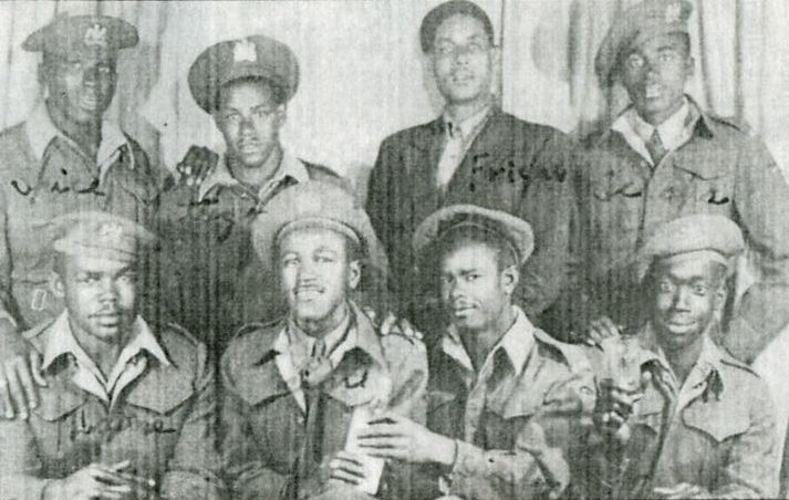 Soldiers of the Bermuda Militia serving in the Caribbean Regiment during the Second World War.